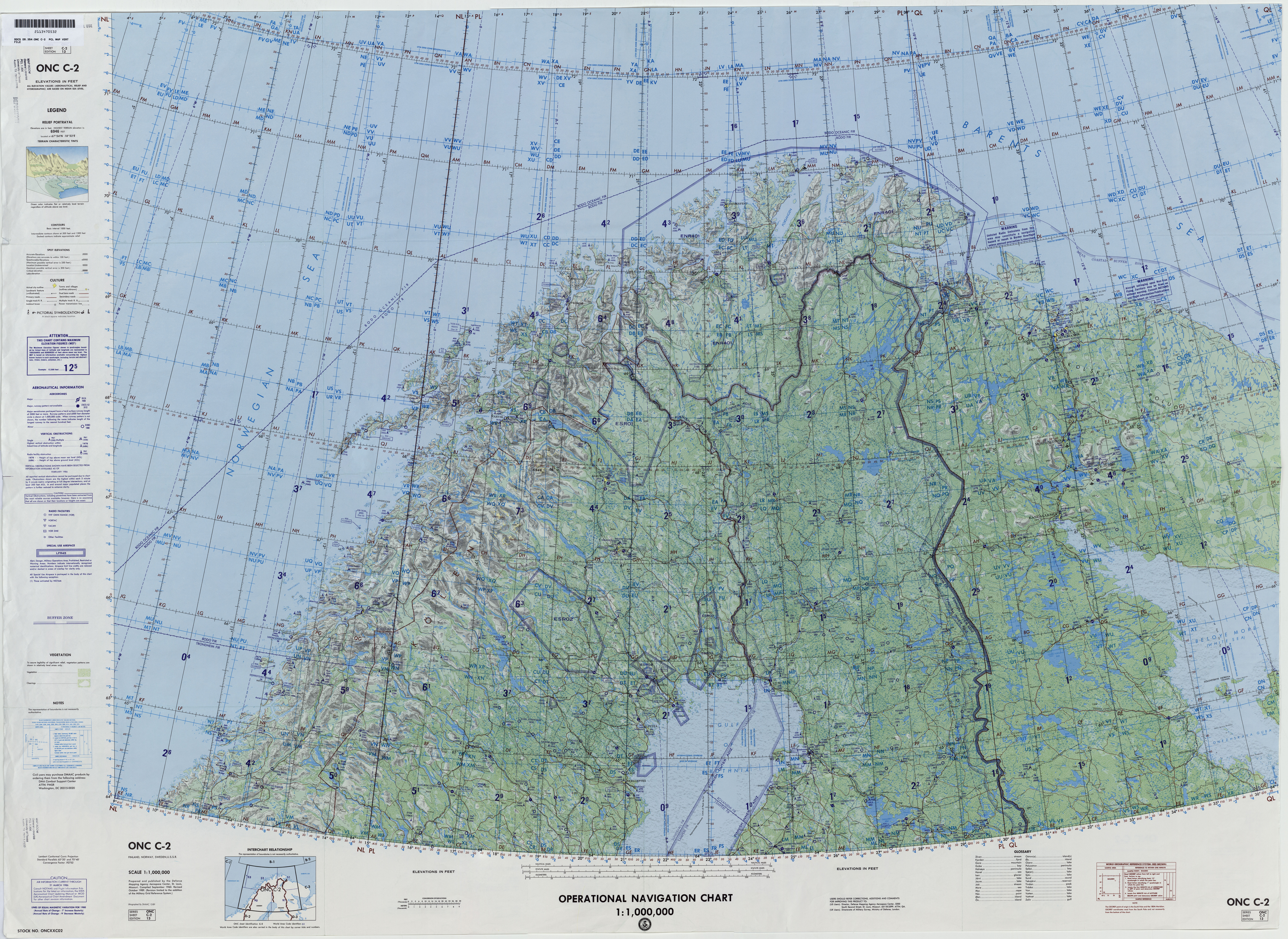 1:1,000,000 scale Operational Navigation Chart, Sheet C-2, 13th edition. Covers Finland, Norway, Sweden, U.S.S.R. Lambert Conformal Conic Projection. Standard Parallels 65 20N and 70 40N. Center longitude 22 45E.